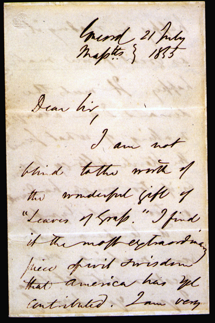 Letter to Walt Whitman dtd, 21 July, 1855, first Page: "I am not blind to the worth of the wonderful gift of "Leaves of Grass." I find it the most extraordinary piece of wit and wisdom that America has yet contributed."